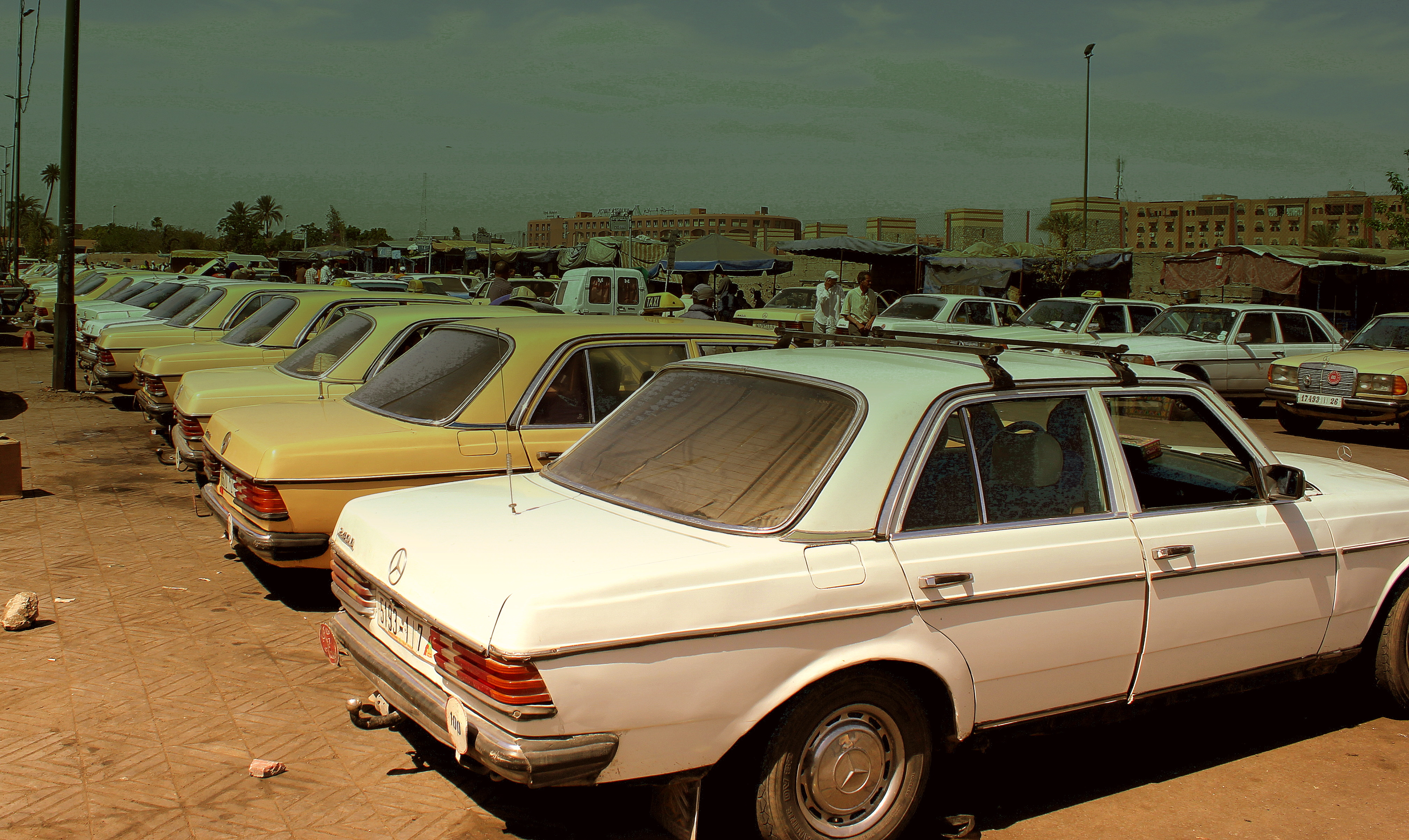 Mercedes taxis in Marrakech, Morocco.